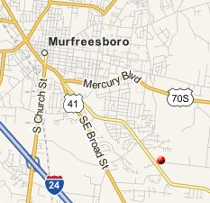 This map of Murfreesboro, TN with location of Islamic Center marked was created from OpenStreetMap project data, collected by the community. This map may be incomplete, and may contain errors. Don't rely solely on it for navigation.